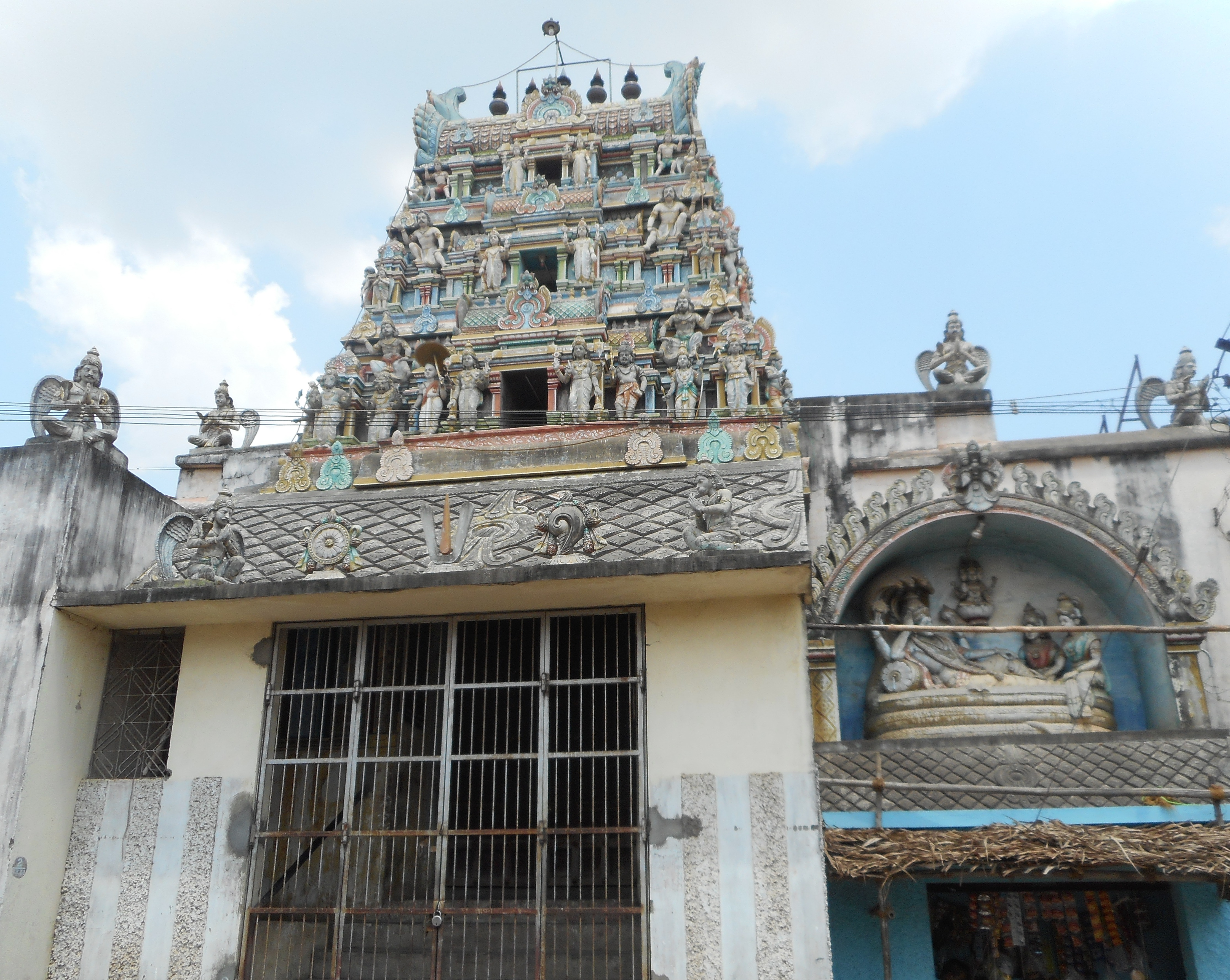 Kumbakonam Varadarajaperumal temple கும்பகோணம் வரதராஜப்பெருமாள் கோயில்